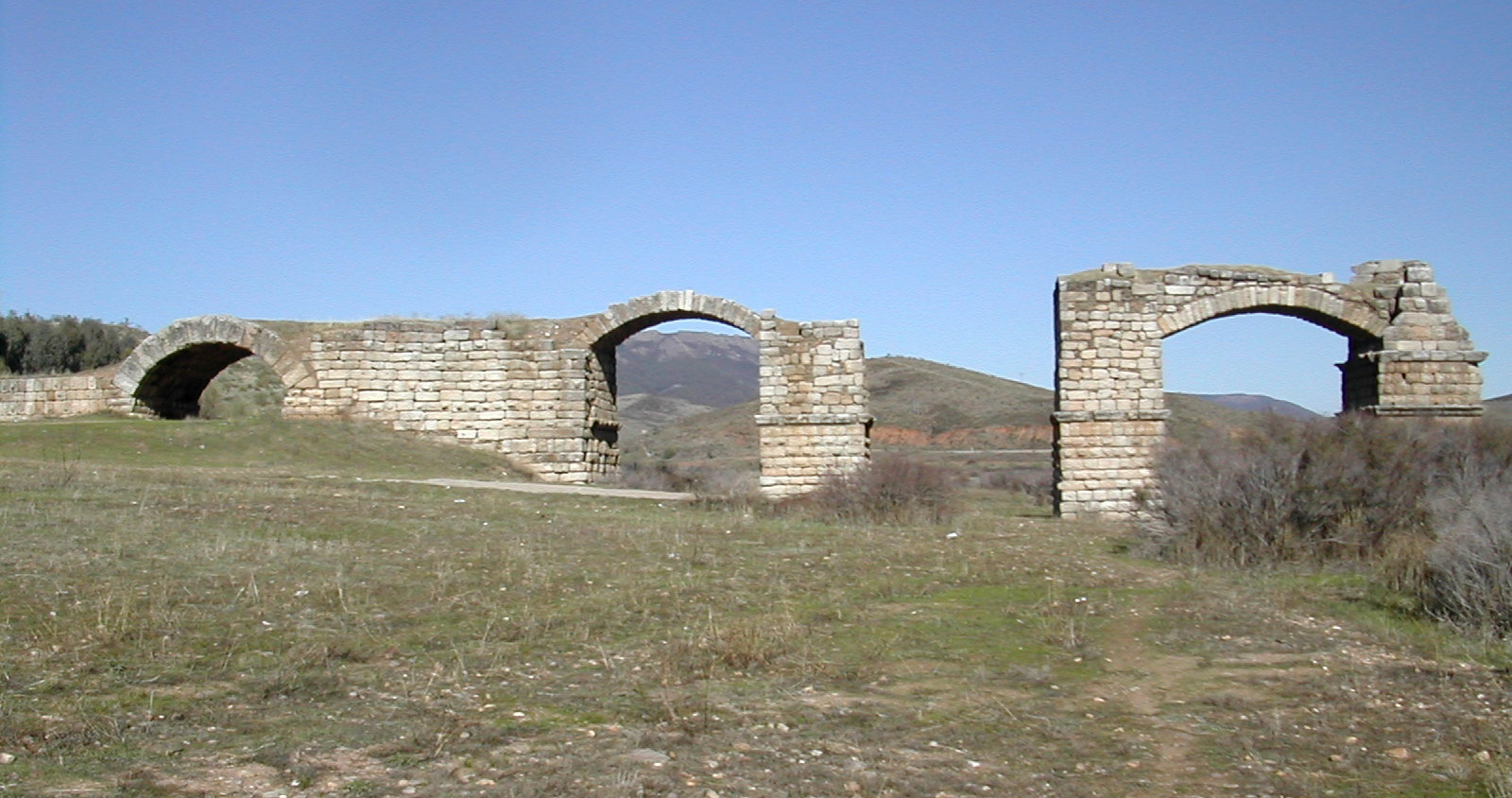 The remains of the Roman Puente de Alconétar (Alconétar Bridge), Cáceres Province, Spain. The ancient segmental arch bridge originally crossed the Tajo river near the village of Garrovillas. In 1972, during the construction of the Alcántara reservoir, the structure was moved 6 km upstream to its current location.